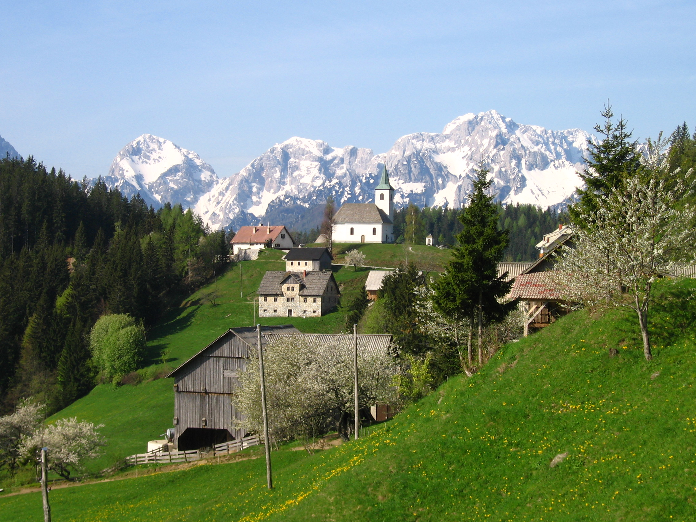 Church of Holy Spirit in Podolševa with Kamnik Alps behind